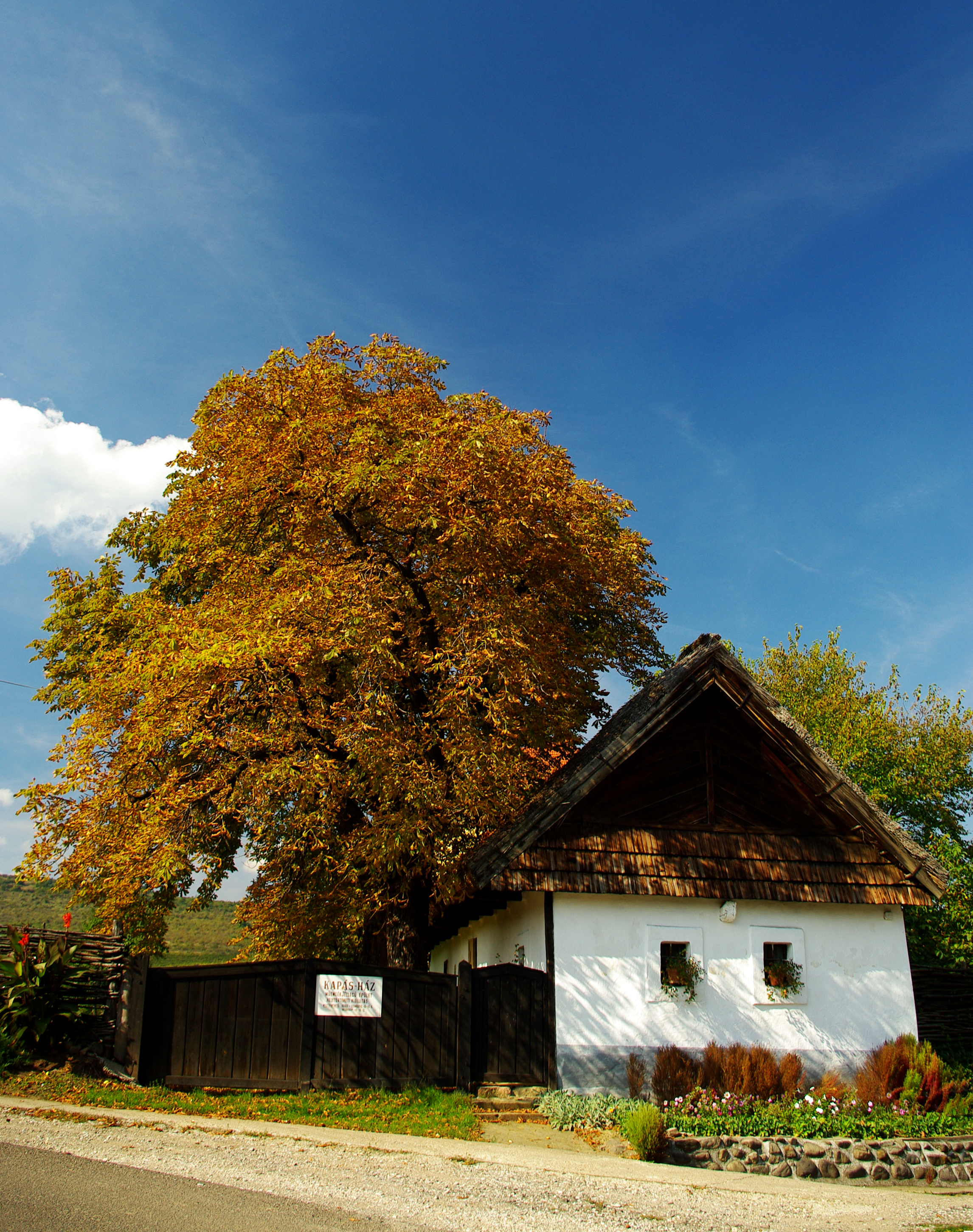 Traditional residential house ("Kapásház"), regional folklore museum, in Abasár, Heves County, Hungary)